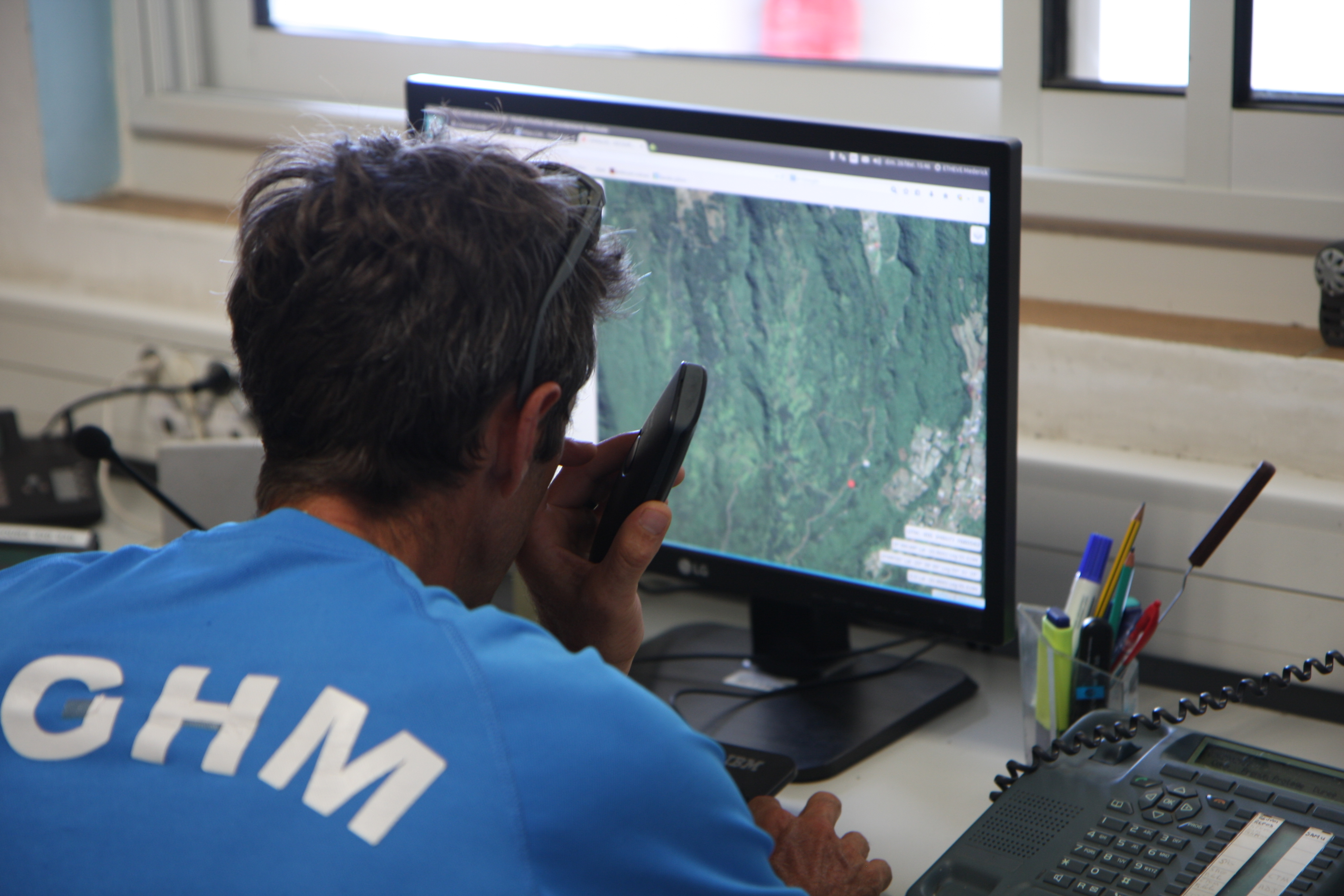 French PGHM gendarme providing assistance to a lost hiker - La Réunion